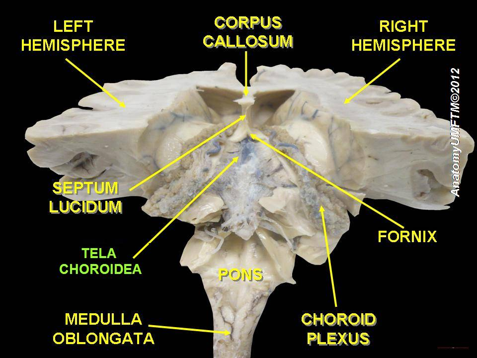 Anatomical dissection